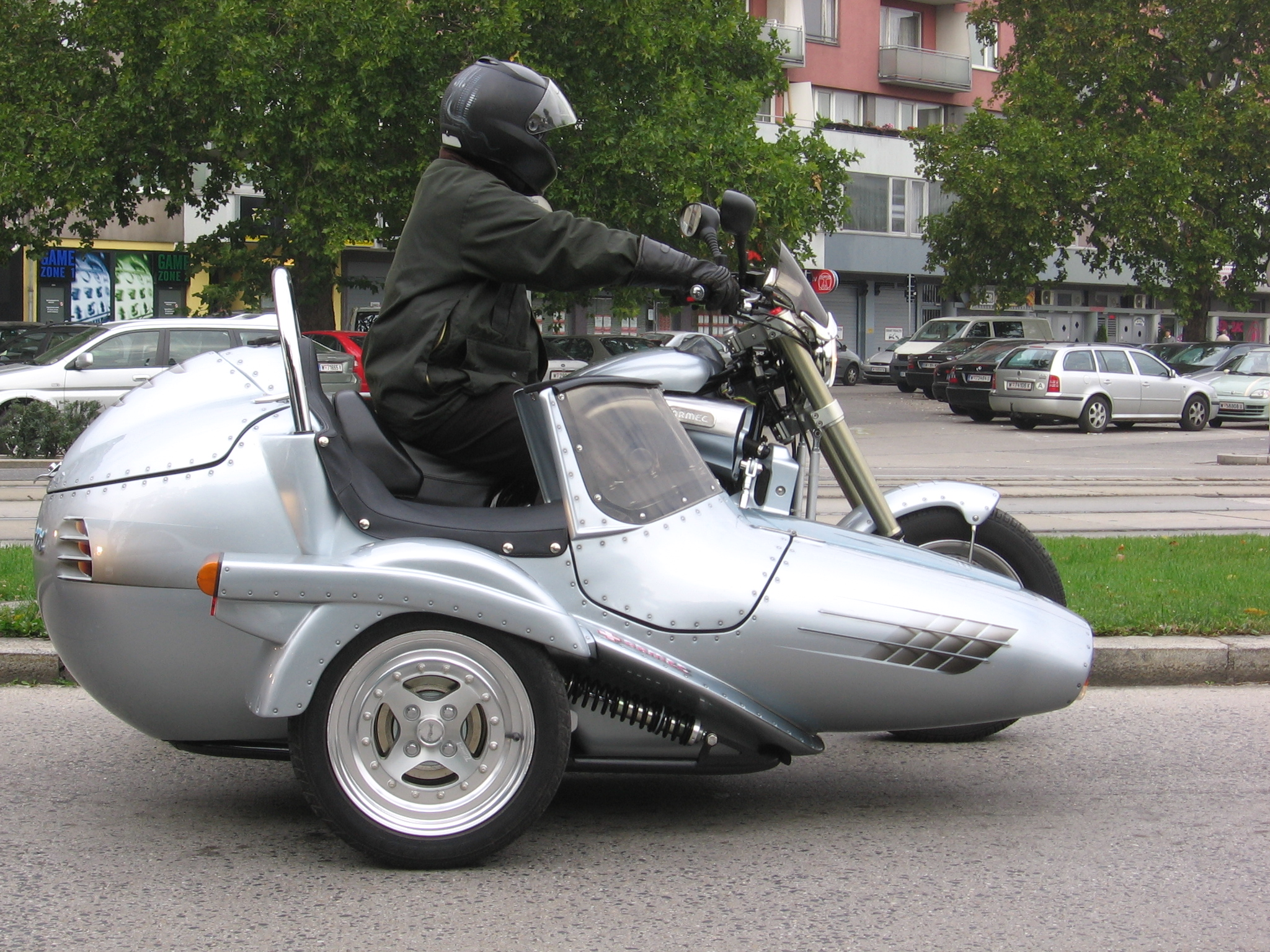 Sidecar with Swiss license plates on Vienna's street (ARMEC Tremola I mit Yamaha V-Max)